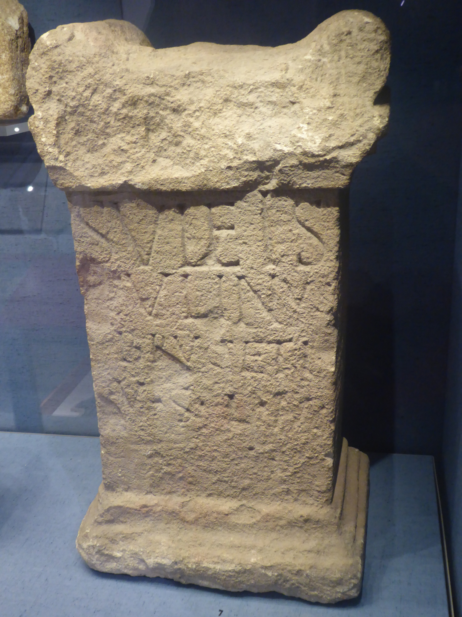 Roman altar of a man called Sulinus from Cirencester